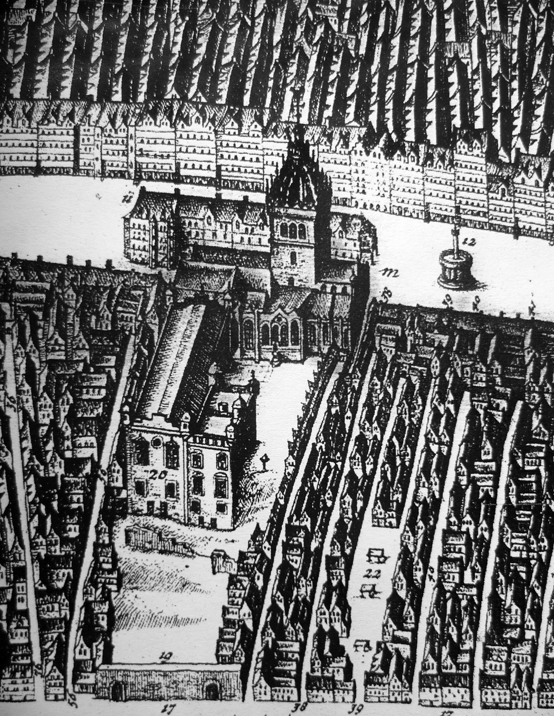 St. Giles Kirk and Parliament House from James Gordon of Rothiemay's map of Edinburgh 1647. The building beyond St. Giles is the row of open-fronted shops called the Luckenbooths. The town's tolbooth occupied the left end of the row.